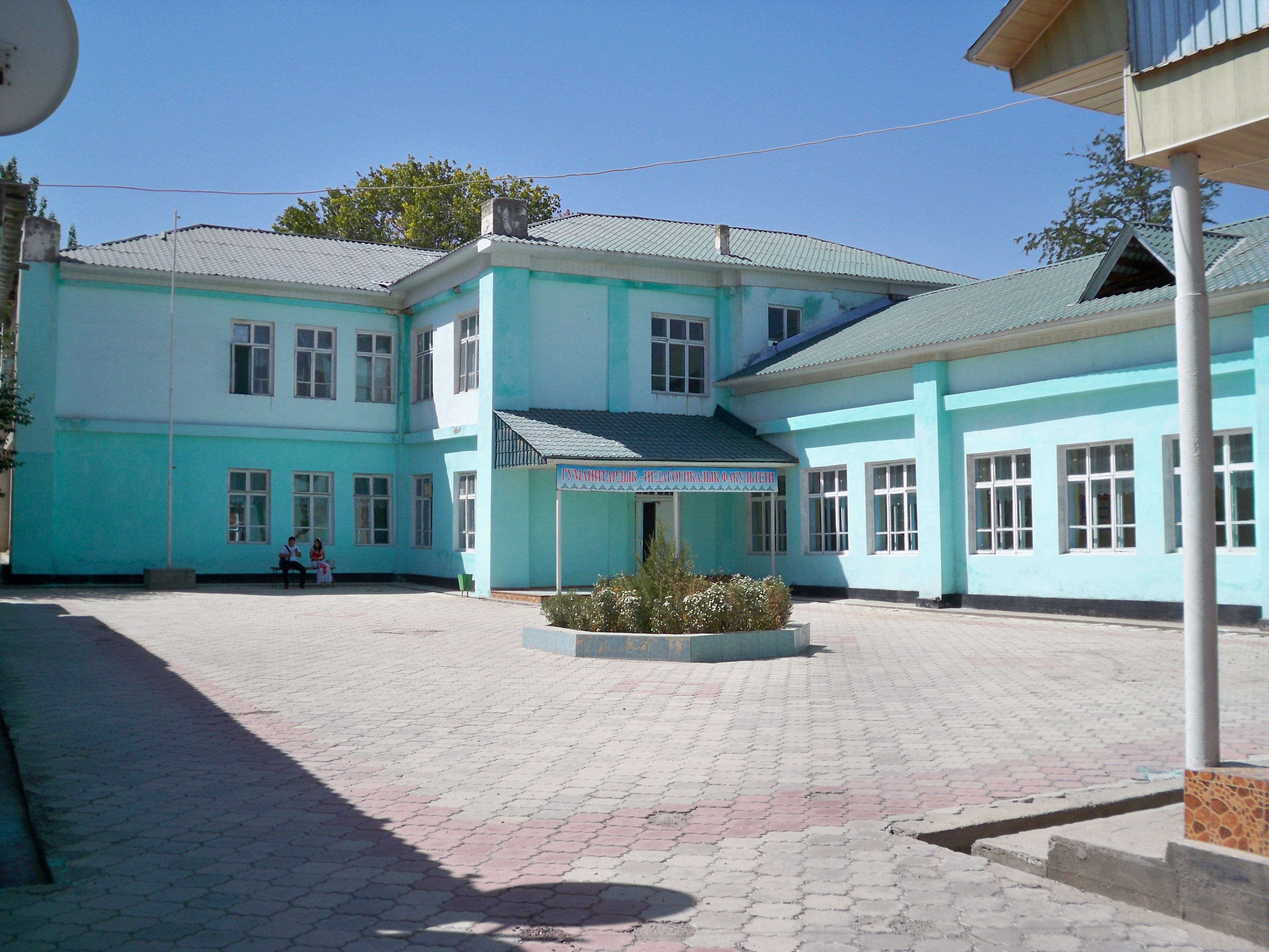 The building of the Sulyukta Institute of Humanities and Economics. It's a branch of the Batken State University.